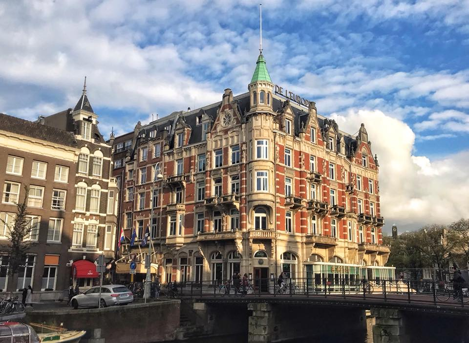 De L'Europe Amsterdam from Rokin street